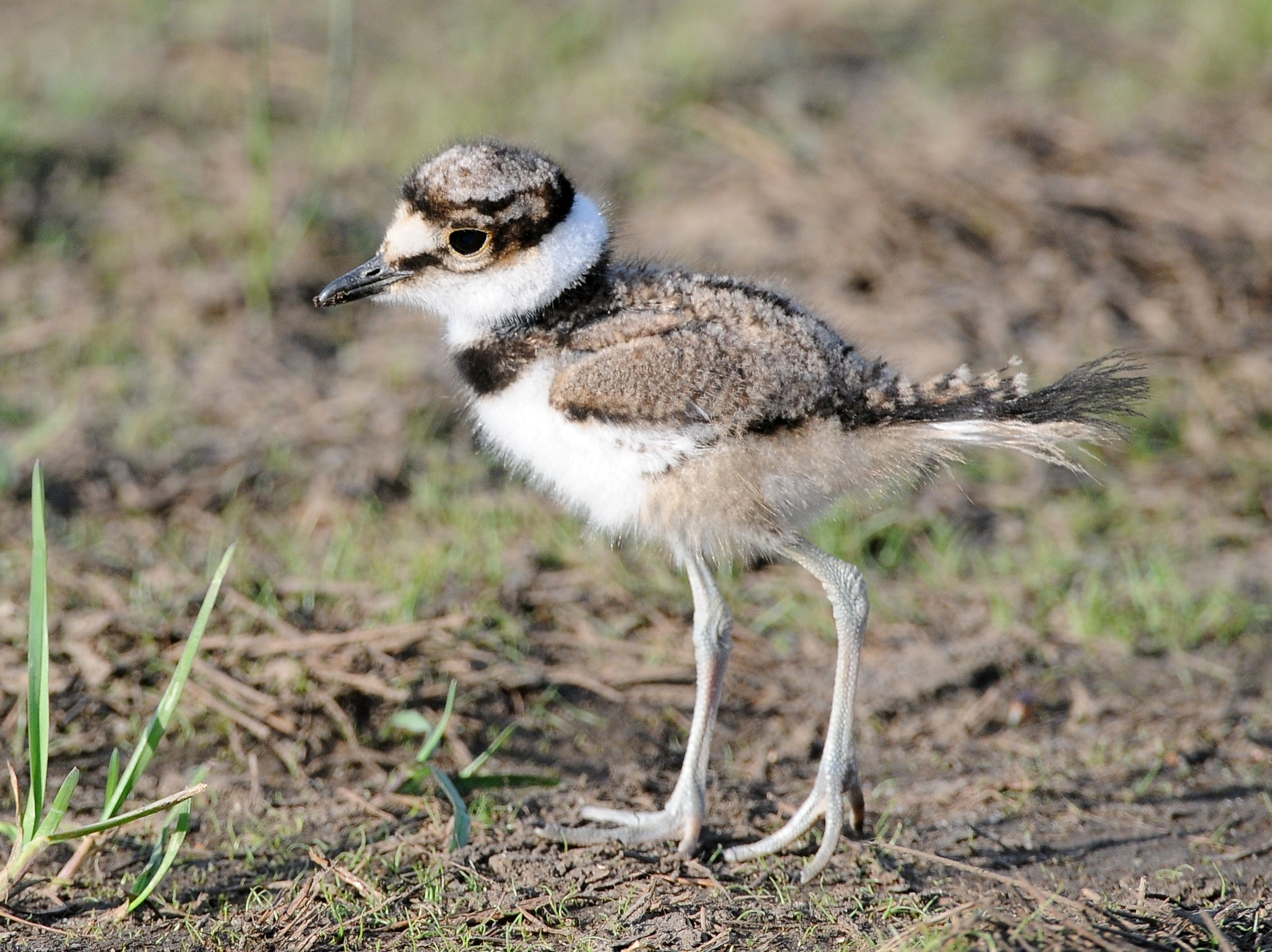 A juvenile Killdeer in Sandy Hook, New Jersey, USA.